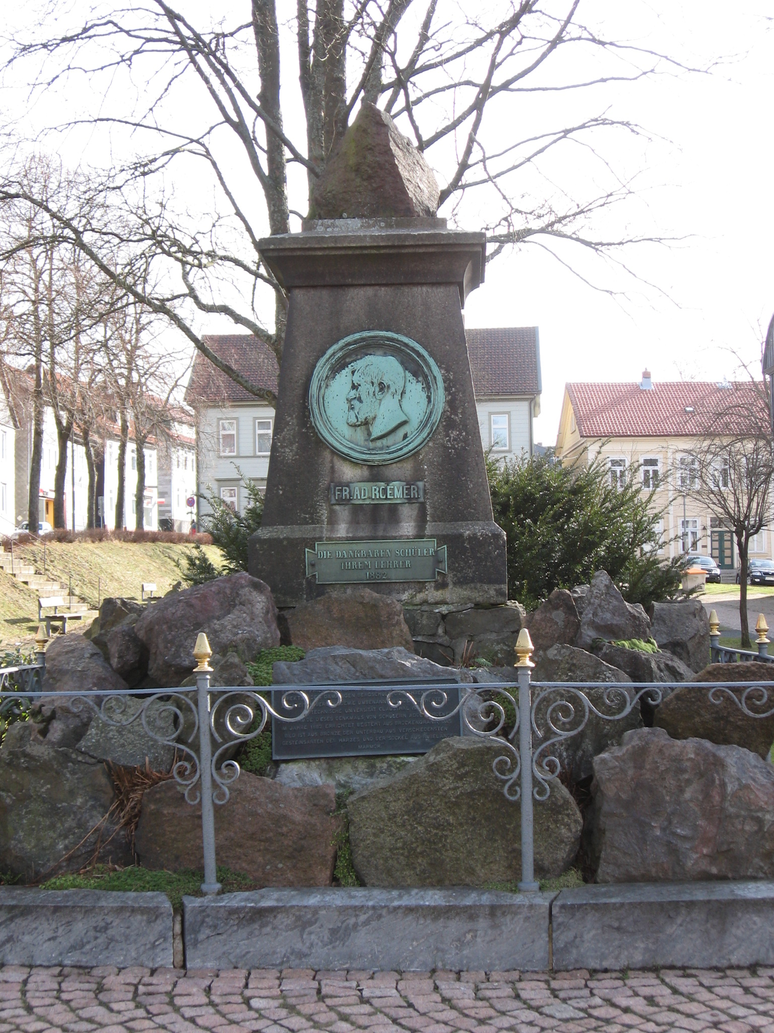 Friedrich Adolph Roemer memorial in Clausthal-Zellerfeld (Lower Saxony, Germany)